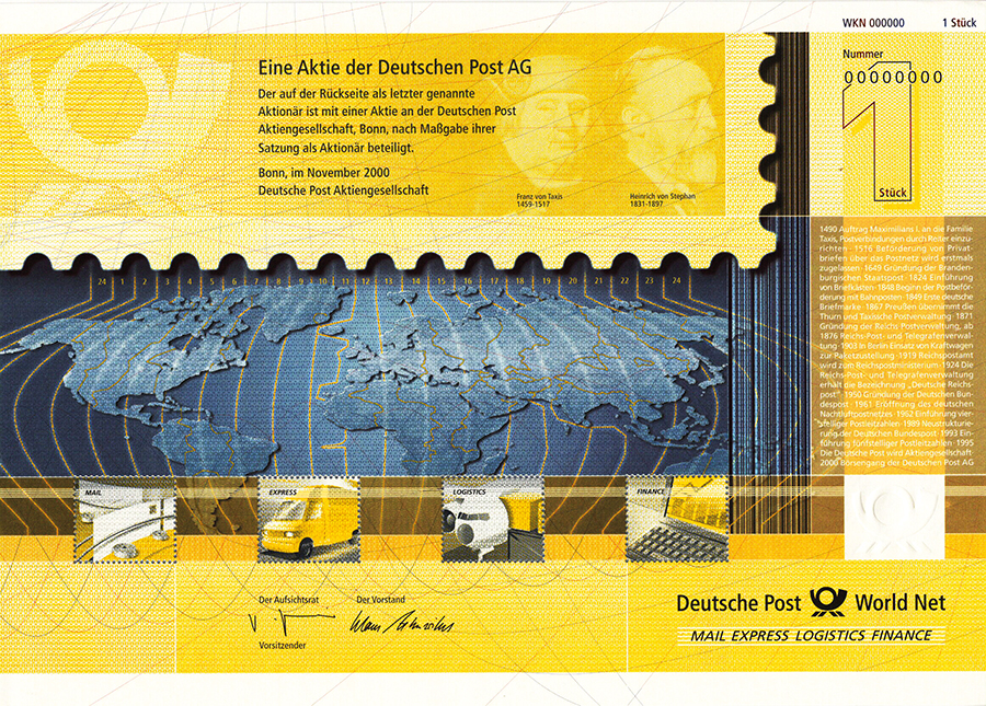 Specimen of a share certificate of Deutsche Post AG World Net (DHL)